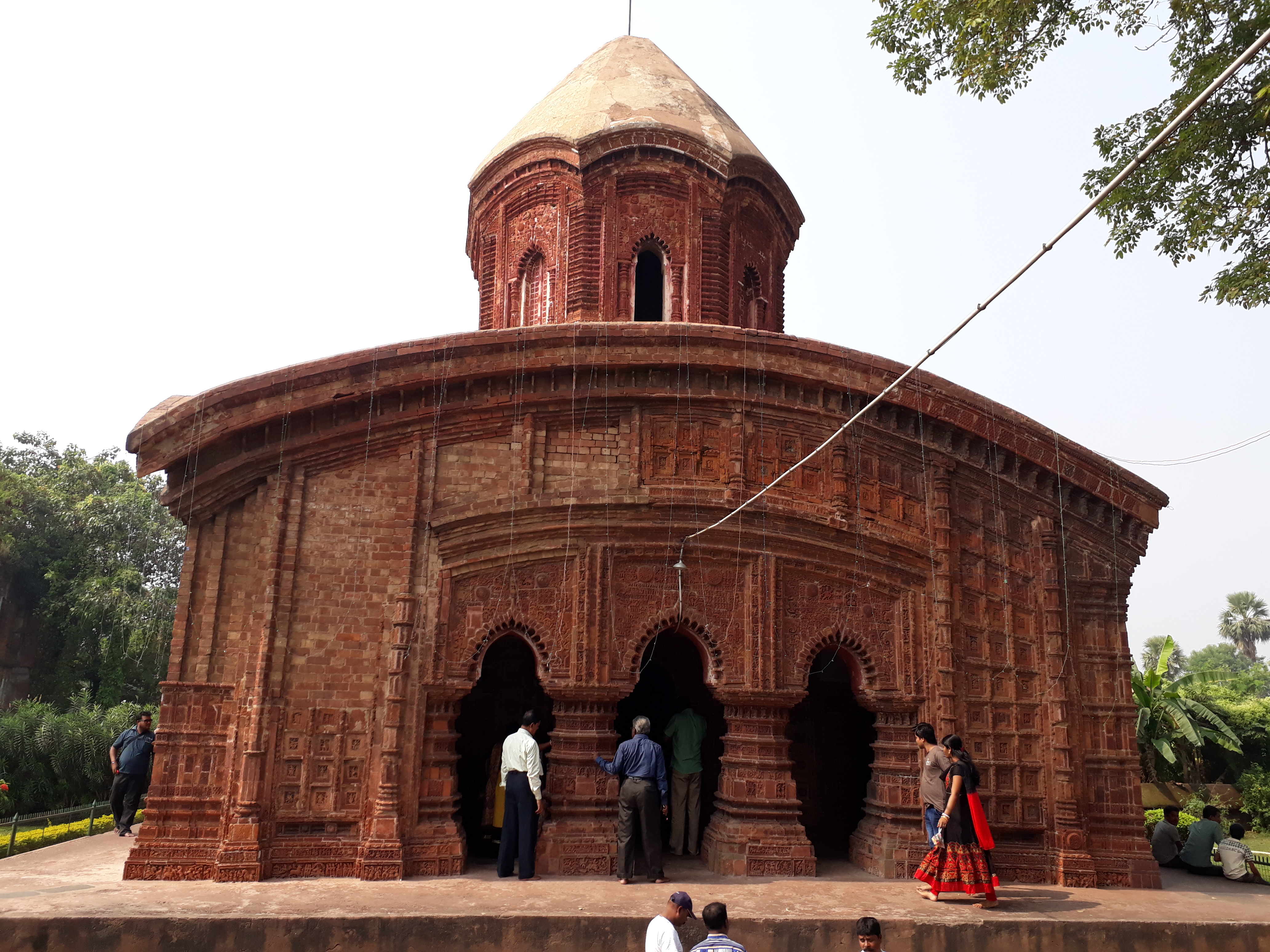 অনন্ত বাসুদেব মন্দির, ত্রিবেনী, হুগলী